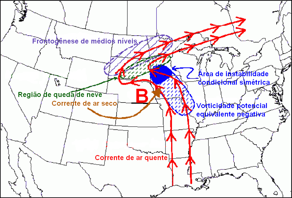 Derivated work from Image:Snowcsi.gif (Translated captions to Portuguese)